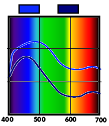 2 blue spectral reflectance curves Source of image- Digitally created by Deborah S Krolls, December 23, 2004 Copyright status- all permissions granted by originator Fair use rationale- not applicable Description of the image-Example of simplistic spectral reflectance curves of 2 blue samples. Other versions- none Relevant links (internal and external)- Spectral Reflectance curves copyright Permission is granted by artist, Deborah Krolls, to copy, distribute and/or modify under the GFDL, version 1.2 any later version published by the Free Software Foundation; with no Invariant Sections, with no Front-Cover Texts, and with no Back-Cover Texts.